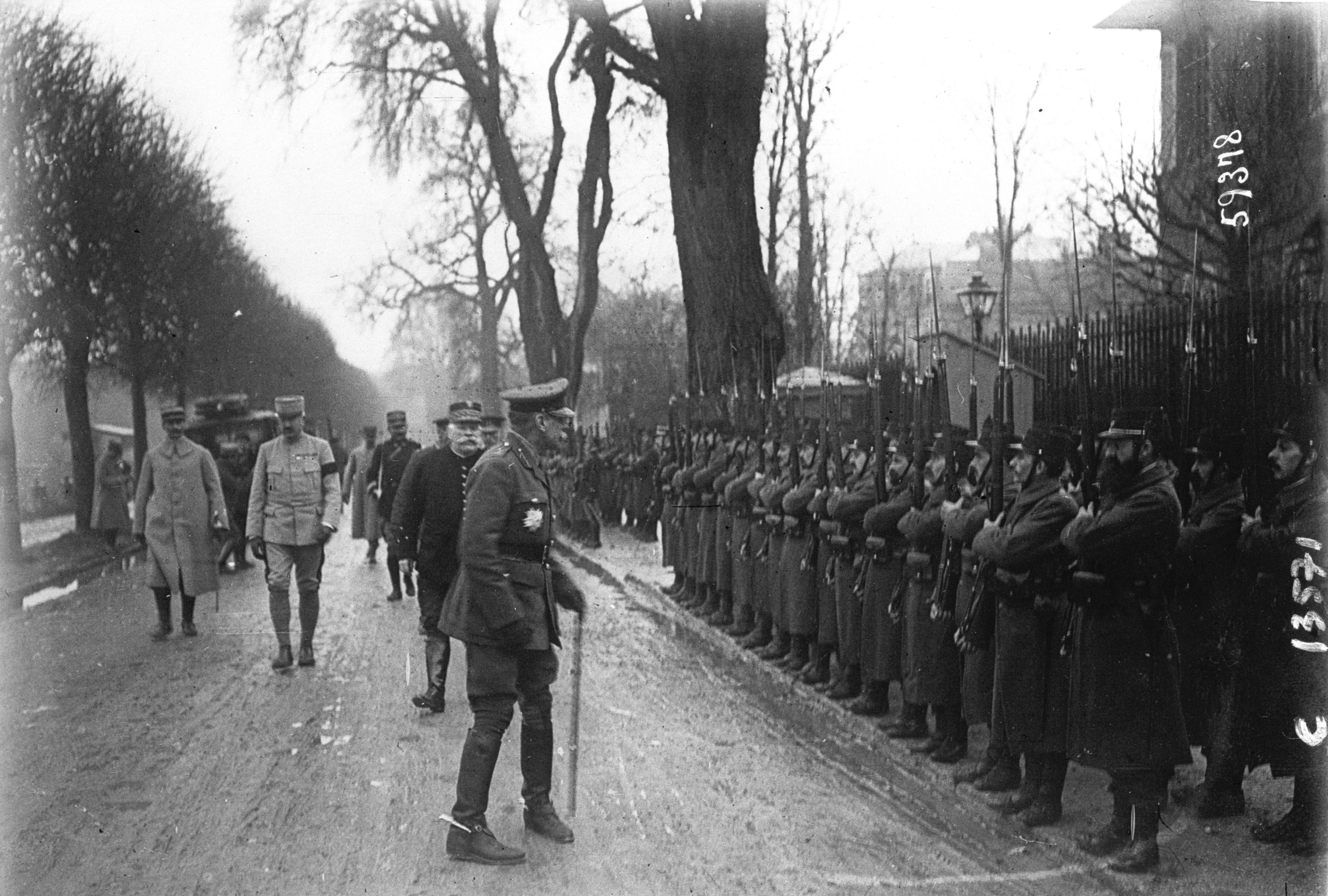 Douglas Haig and Joseph Joffres inspect French troops outside the GQG in 1916